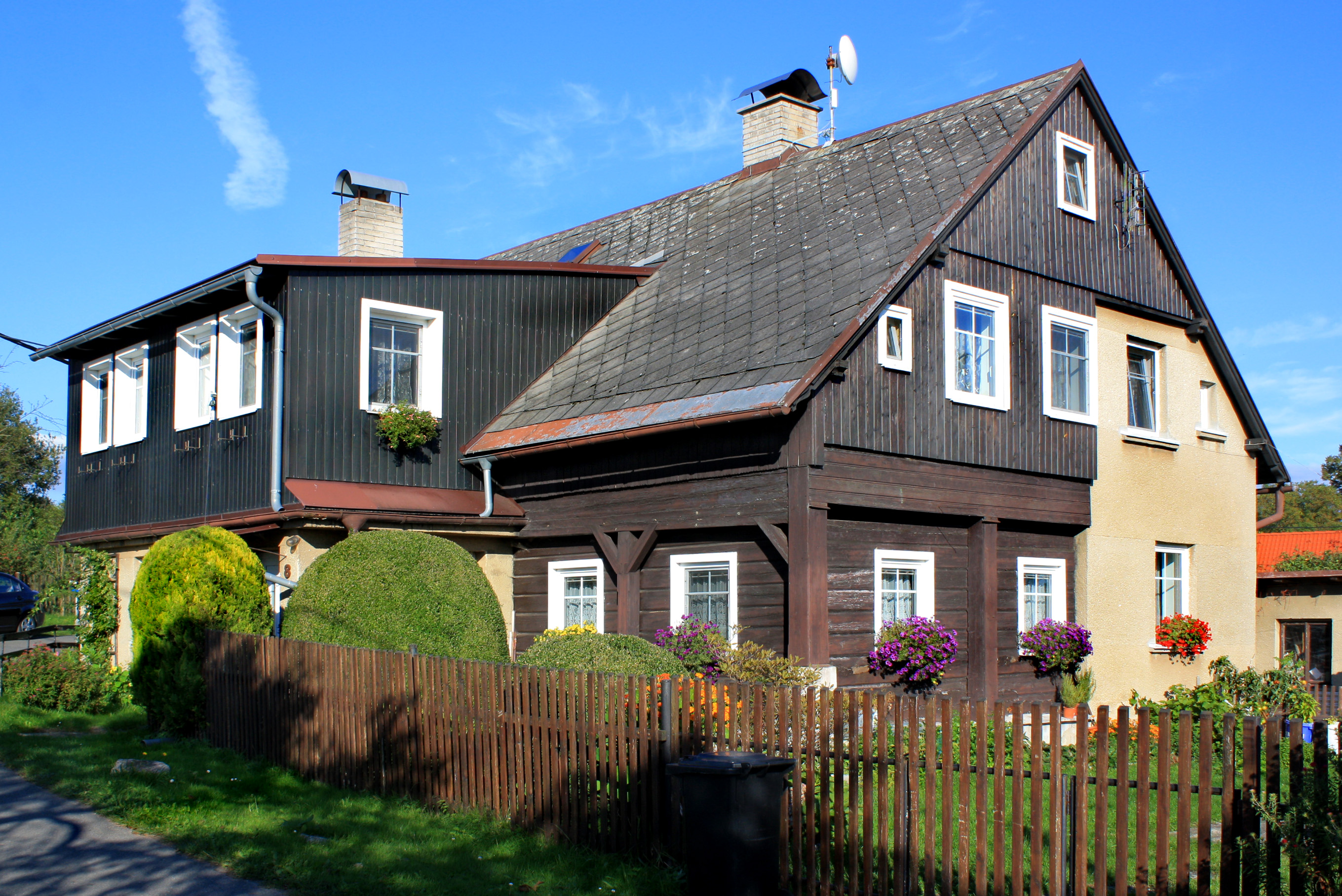 Vysoká, part of Chrastava, Czech Republic